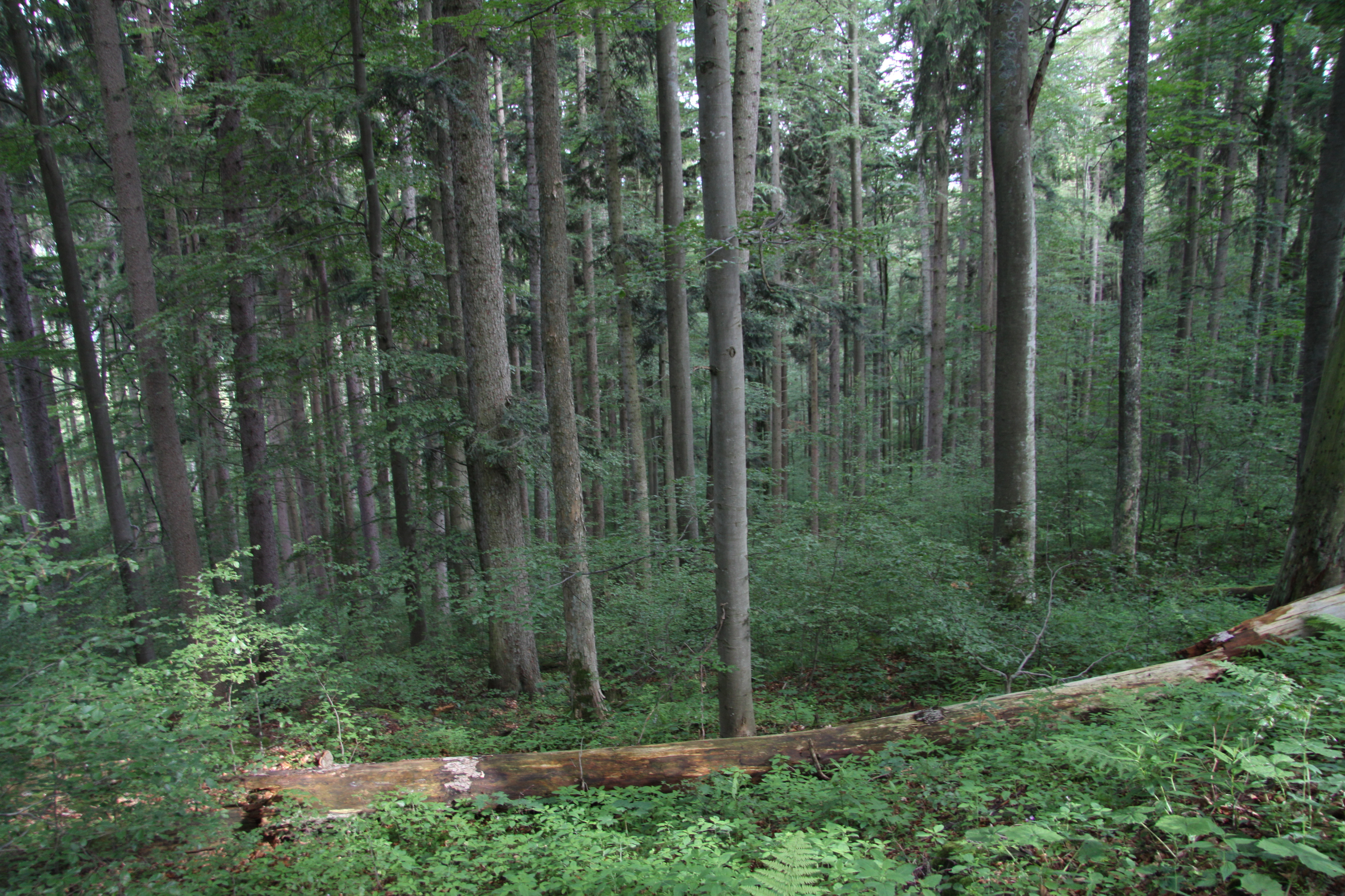 Natural monument Jilmová skála on the flanks of Boubín mountain near Kubova Huť, Prachatice District, Czech Republic - Google Maps - Google Earth